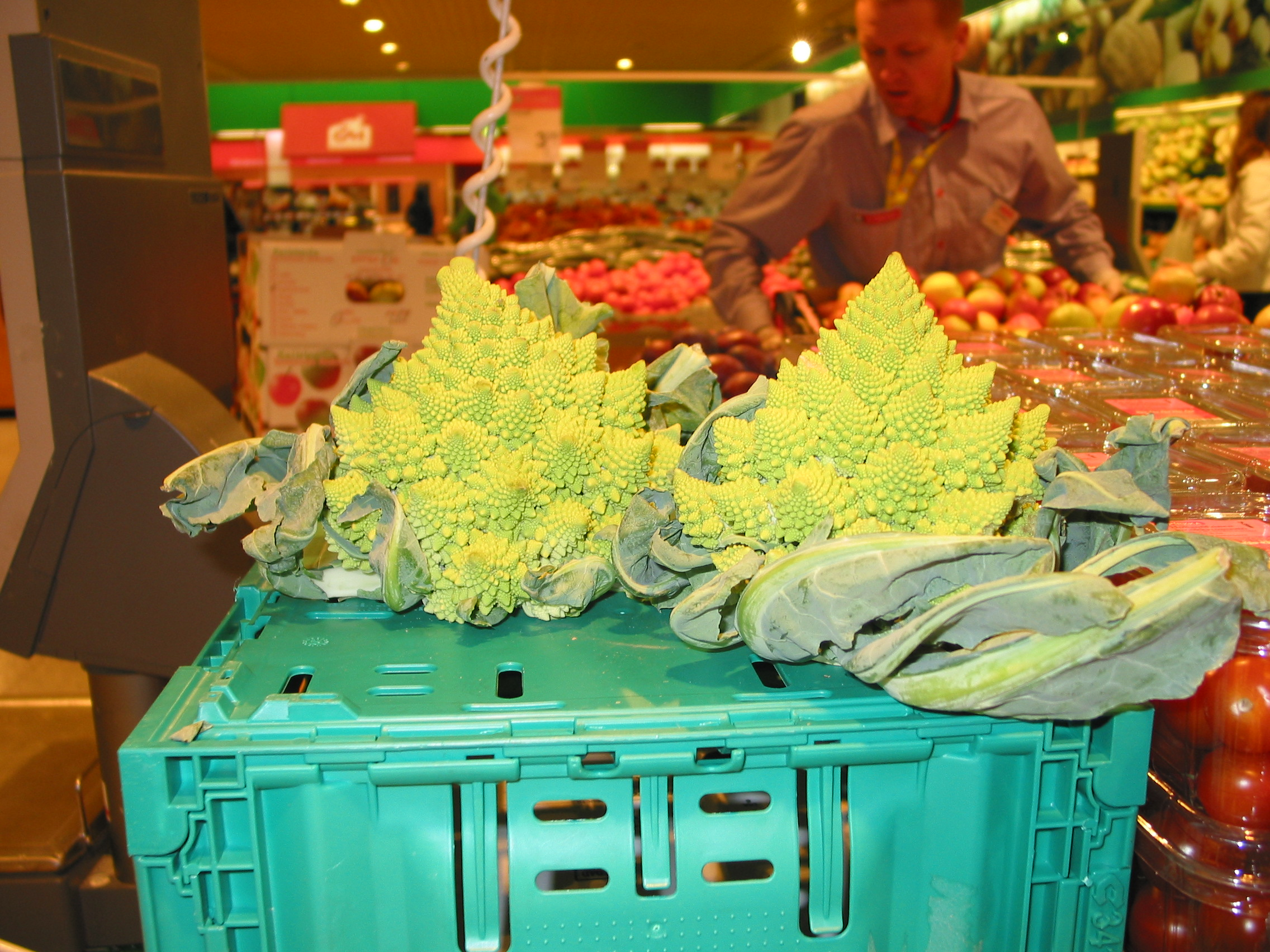 Romanesco